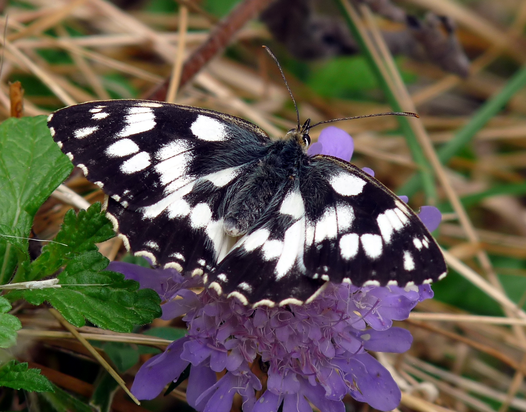 Melanargia galathea, near Stazzema, Toscany, Italy